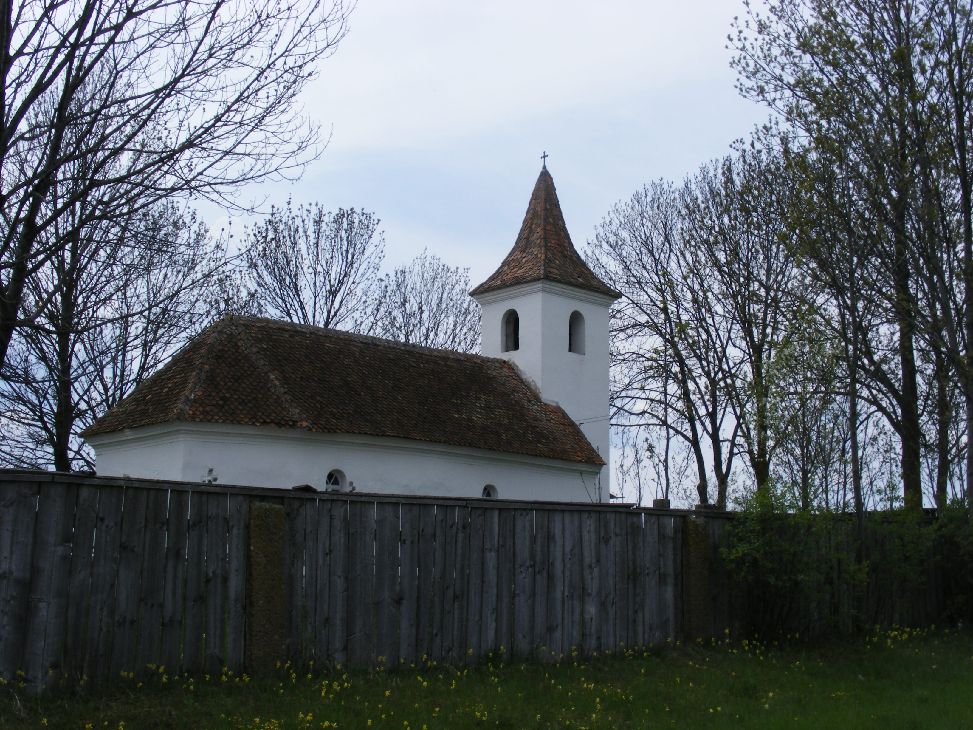 The romano-catholic church in Kotormány, Transsilvany